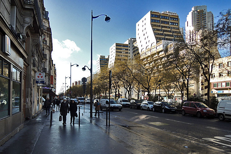 Architecte Martin Schulz van Treeck - Les Orgues de Flandre sont un ensemble de bâtiments d'habitation situés à Paris. The Orgues de Flandre, which can be translated as the "Organs of Flanders", are a group of residential buildings located in the 19th arrondissement of Paris, France.